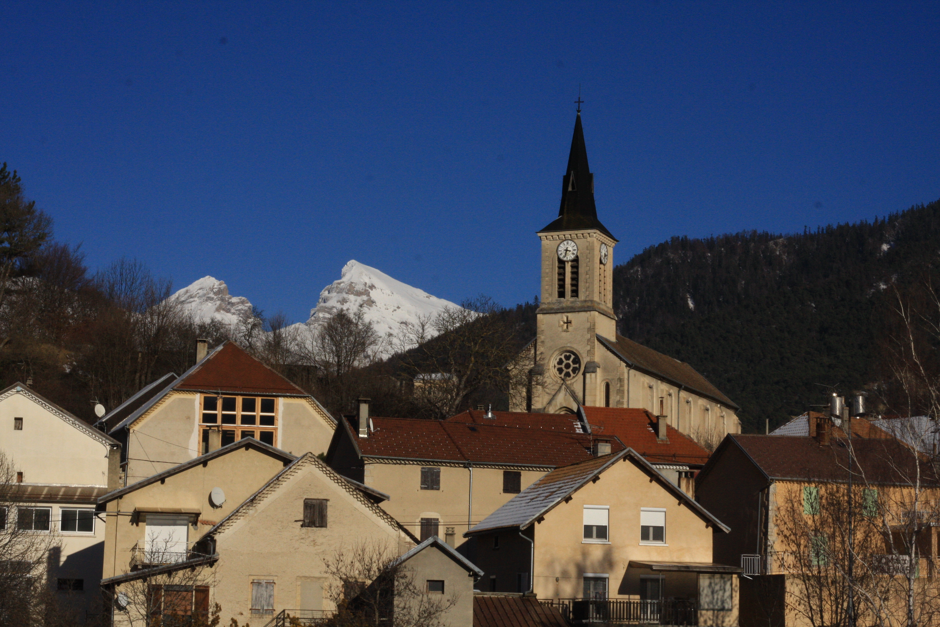 Les deux Garnesier se profilent derrière les toits du bourg.